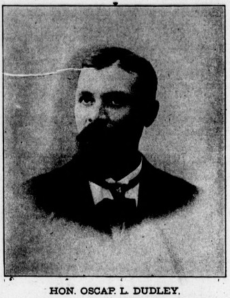 Oscar Dudley